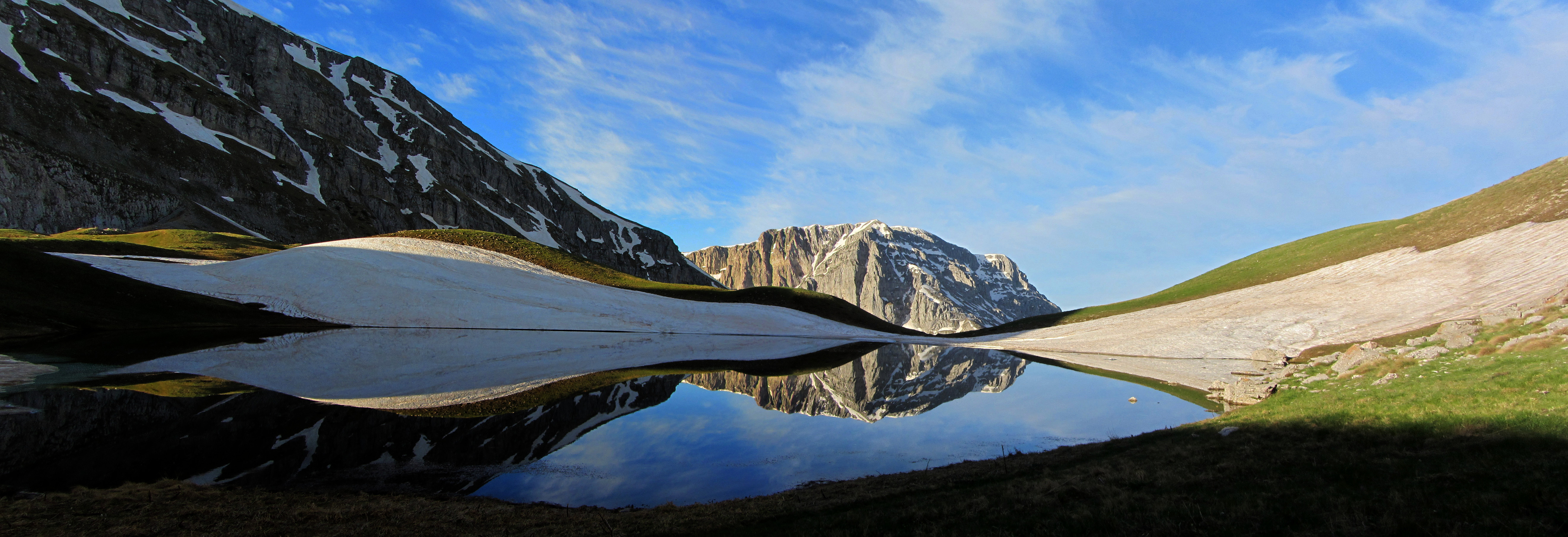 This is a photography of Natura 2000 protected area with ID GR2130009